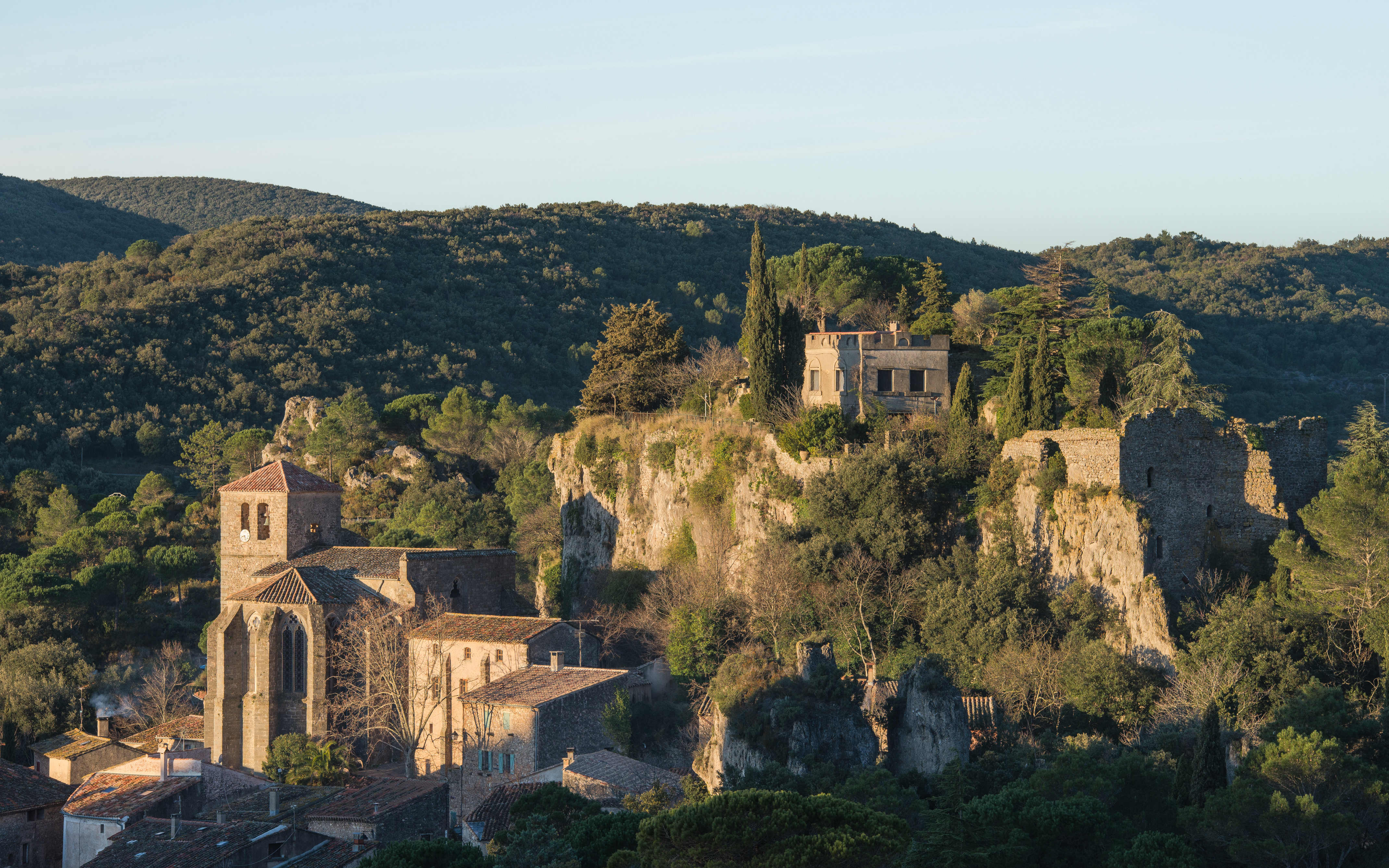 Sainte-Marie Church (XIIth century) and the Roc Castel, a monumental rock where sit the ruins of the castle. The "Cirque de Mourèze" is a steephead whose chaotic appearance was created by the erosion of dolomite rocks. Mourèze, Hérault, France.